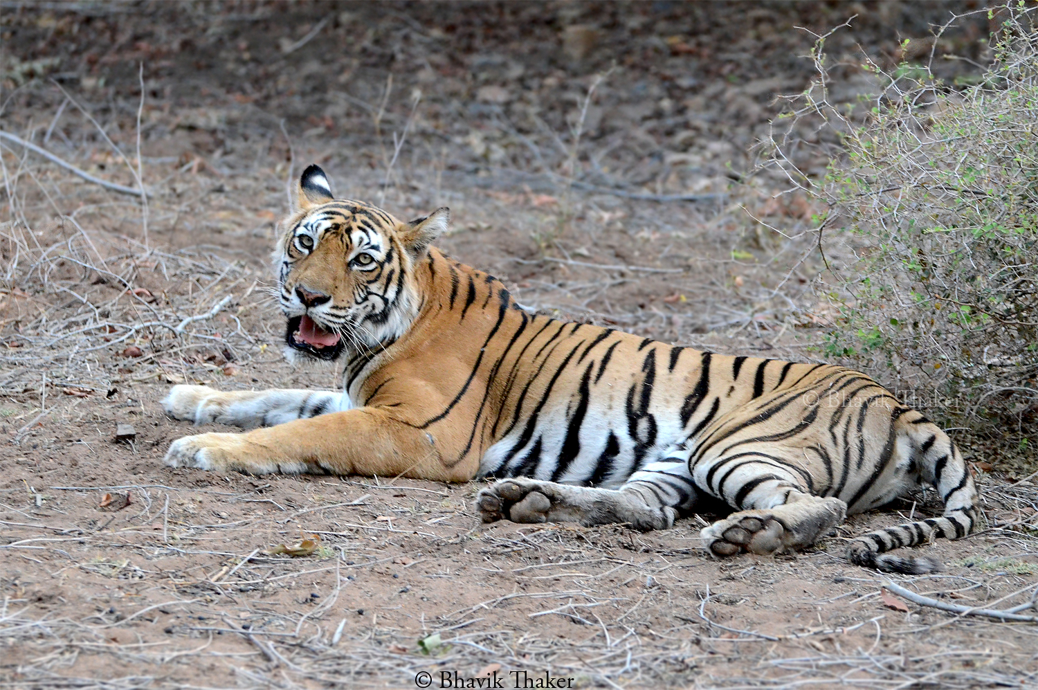 Machli was one of the most famous tigresses. She was an iconic figure of Ranthambore National Park in India.